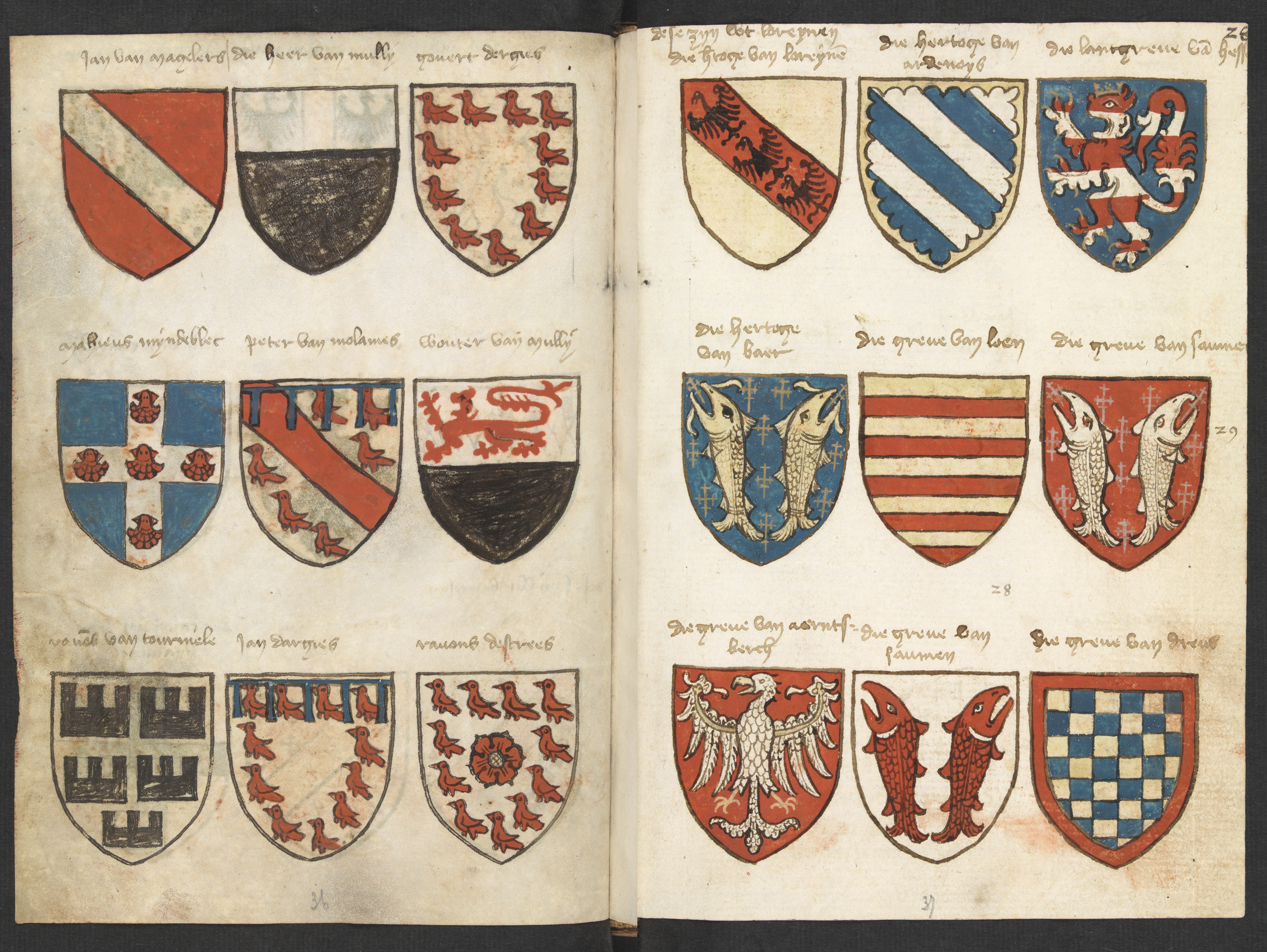 Lefthand side folio 027v; righthand side folio 028r from the Beyeren armorial / Wapenboek Beyeren